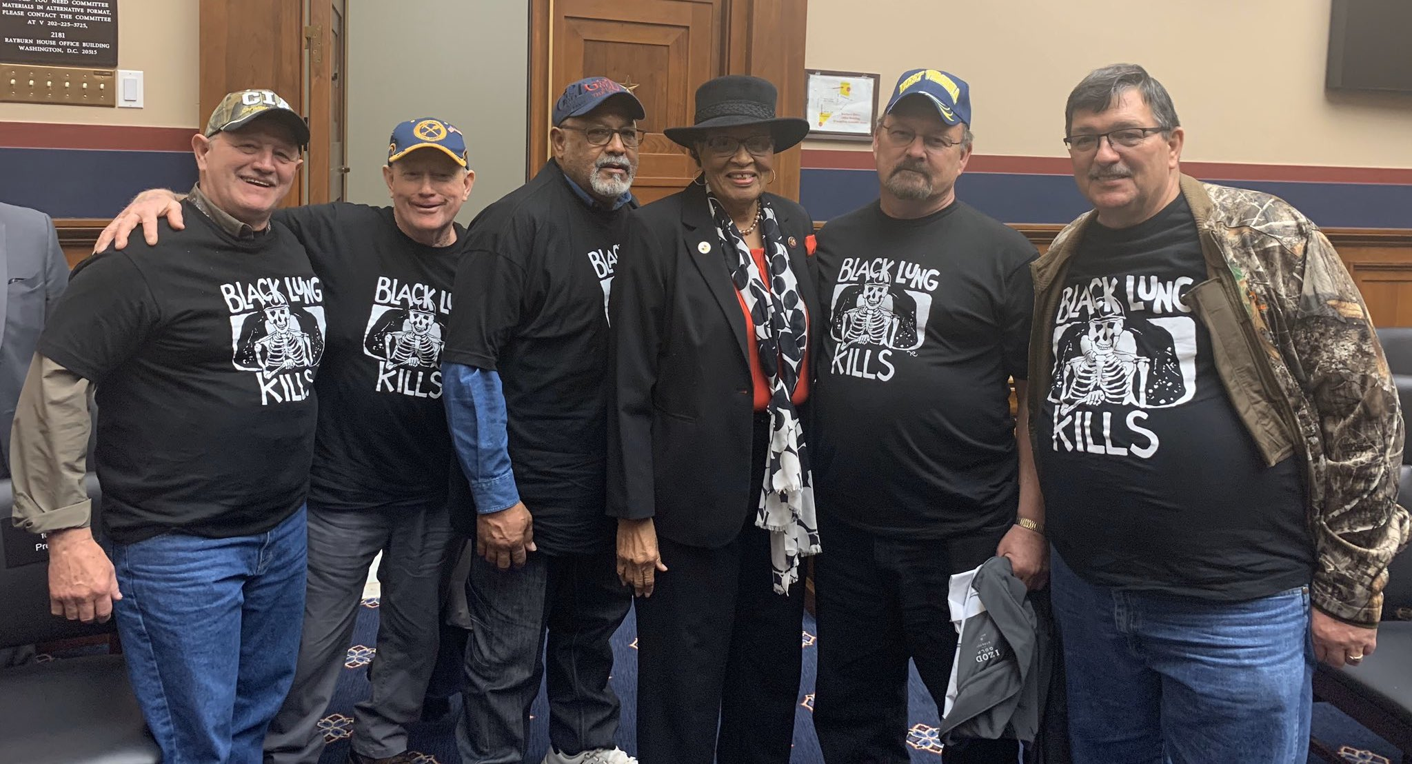 The @USDOLowes America’s coal workers and taxpayers more and it can start by being accountable for its responsibility to oversee the Black Lung Disability Trust Fund.